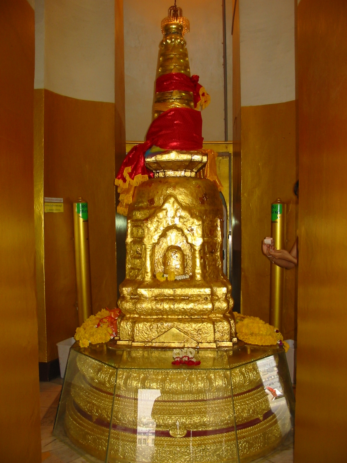 Holy Shrine inside Chedi (Golden Mount) in Wat Saket, Bangkok, Thailand